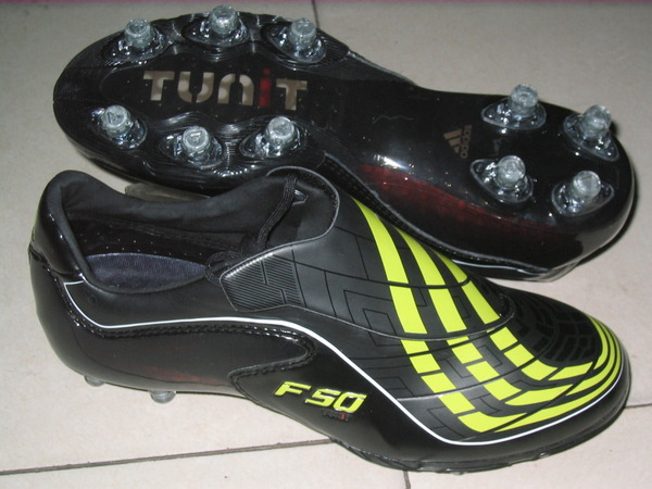 F50 .9 TUNIT